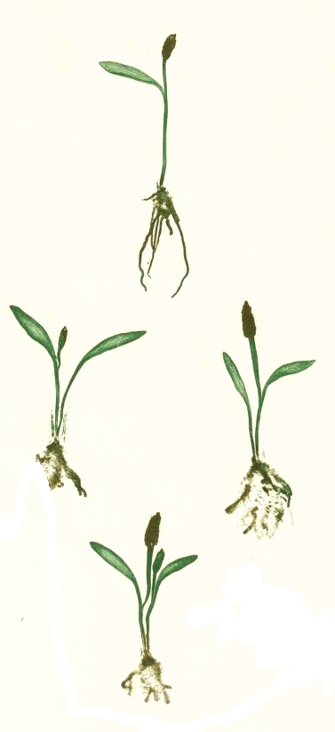 Ophioglossum lusitanicum. Fragment of The ferns of Great Britain and Ireland. by Thomas Moore ; edited by John Lindley ; nature-printed by Henry Bradbury.